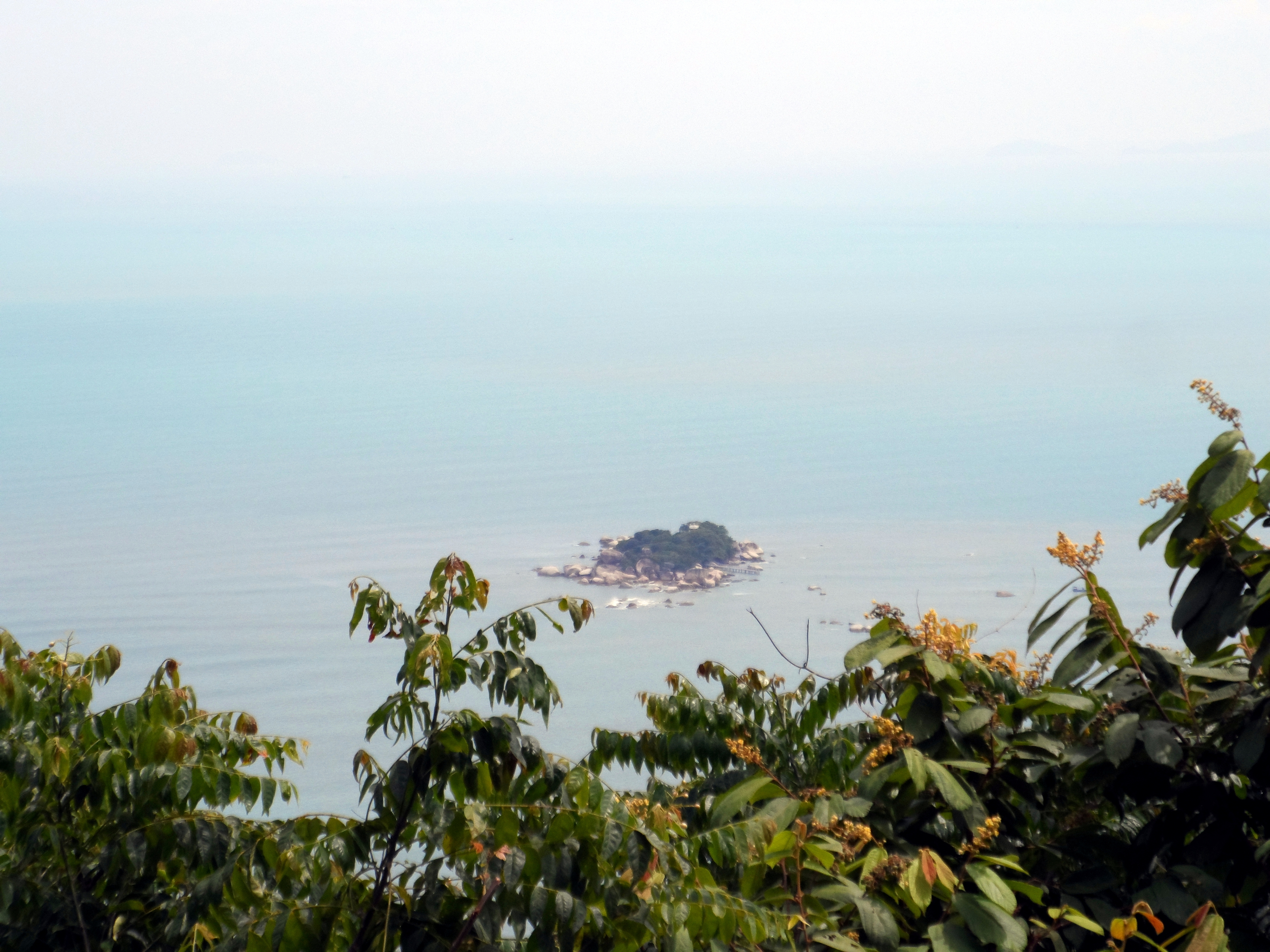 Tikus Island off the coast of Tanjung Bungah near the city of George Town in Penang.